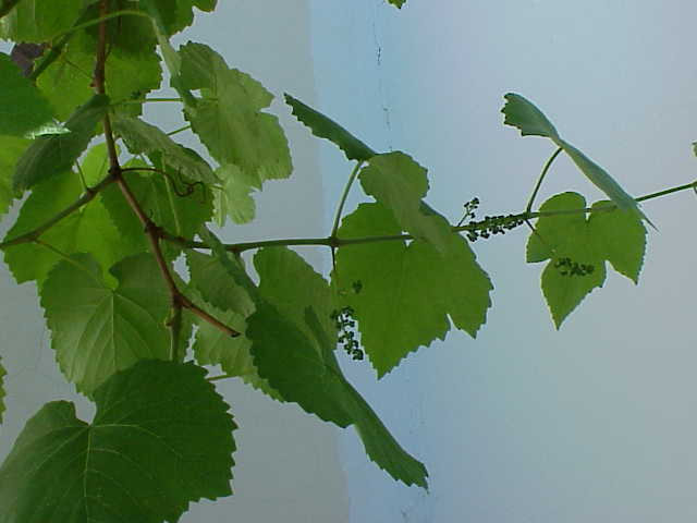 Species: Vitis vinifera Family: Vitaceae Image No. 3